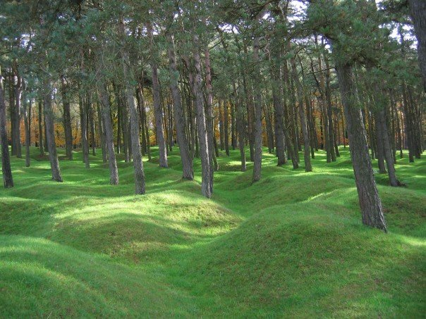 Shell homes near german forward line left to nature.